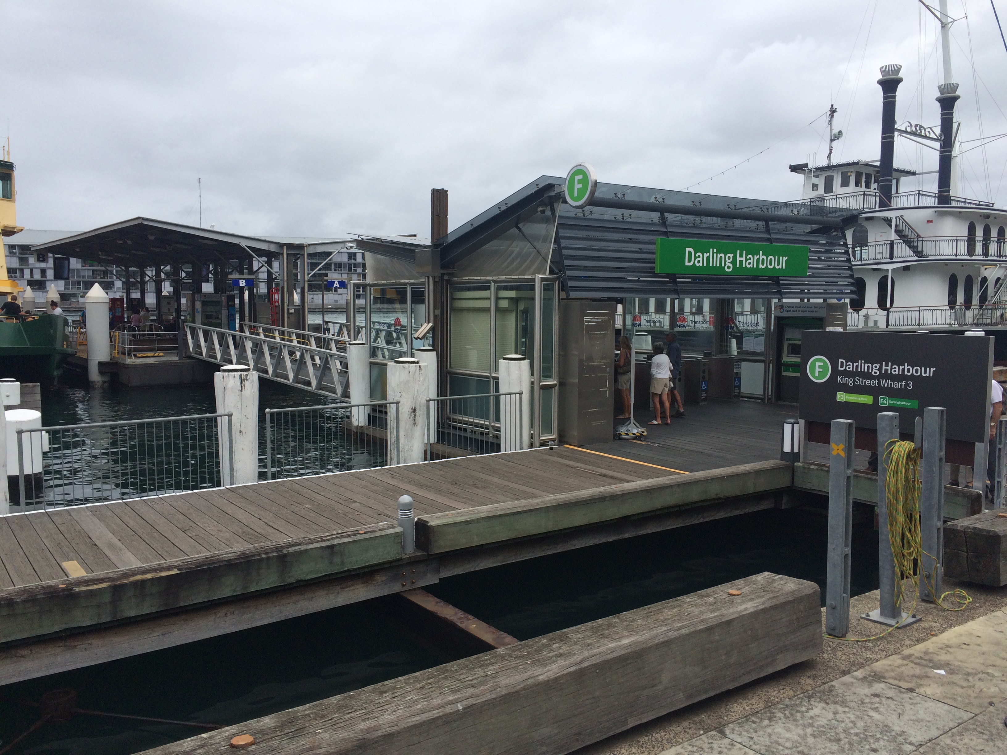 An overview of the redeveloped Darling Harbour ferry wharf, a stop on the F3 Parramatta River and F4 Darling Harbour routes of the Sydney Ferries network. Photograph was taken on 22 March 2015.